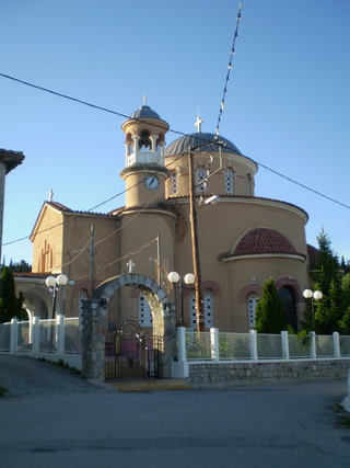 Church Evangelimos tis Theotokou in Kalapodi, Phthiotis, Greece.